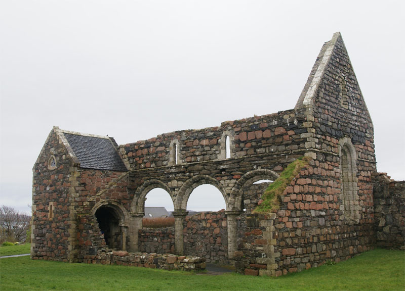 Iona Nunnery (Iona, Scotland) - church